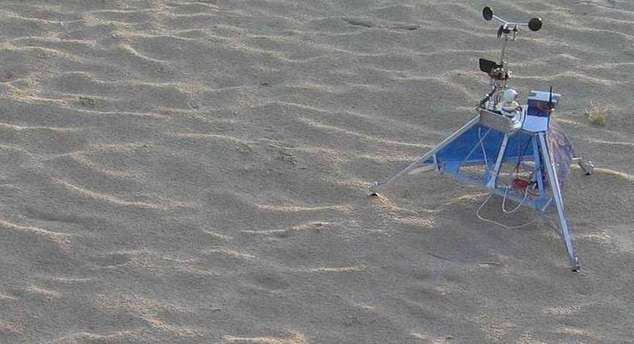 Field trip with Hunveyor-t at dunes in Hugray